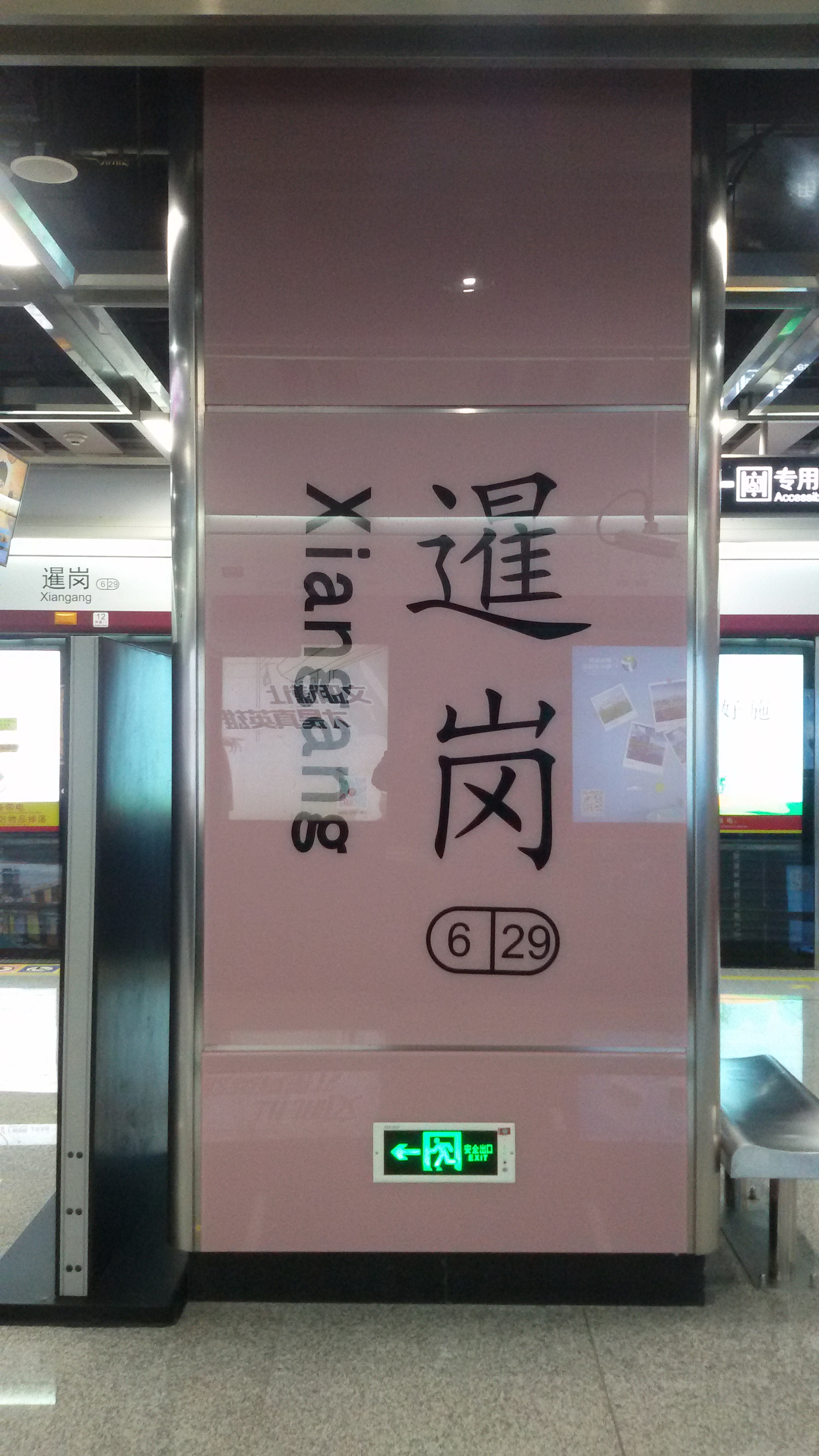 粵語: 廣州地鐵，暹崗站嘅柱上啲字。